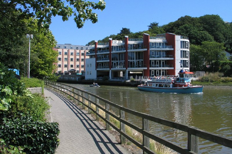 Truro, Cornwall, UK - Apartments alongside the River Truro. The boat is part of the Enterprise Boats line travelling to Falmouth.